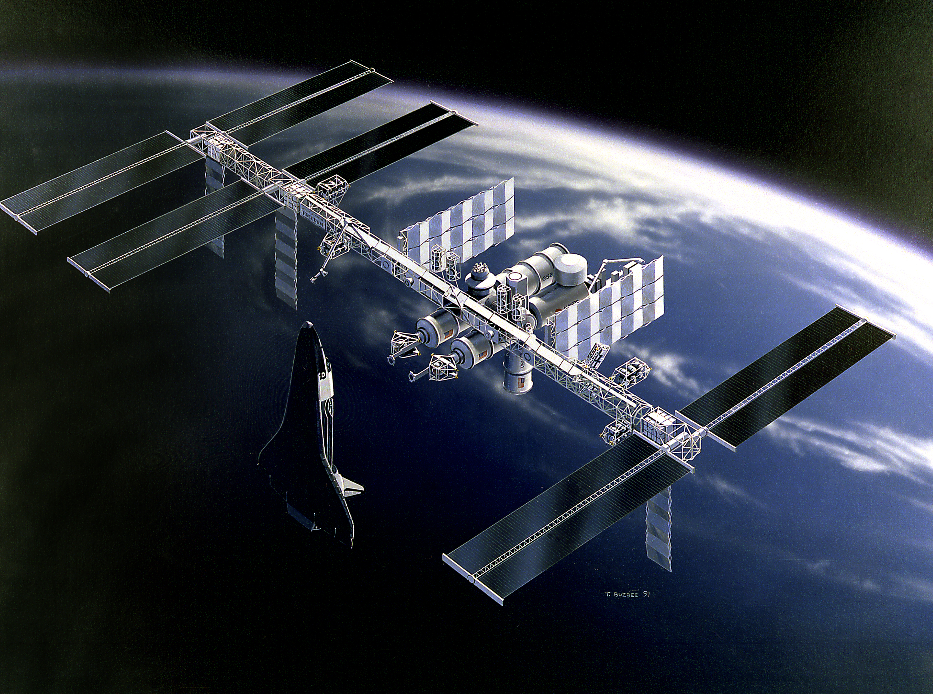 This artist's concept depicts the Space Station Freedom as it would look orbiting the Earth, illustrated by Marshall Space Flight Center artist, Tom Buzbee. Scheduled to be completed in late 1999, this smaller configuration of the Space Station featured a horizontal truss structure that supported U.S., European, and Japanese Laboratory Modules; the U.S. Habitation Module; and three sets of solar arrays. The Space Station Freedom was an international, permanently manned, orbiting base to be assembled in orbit by a series of Space Shuttle missions that were to begin in the mid-1990's. Image ID: MSFC-9139926